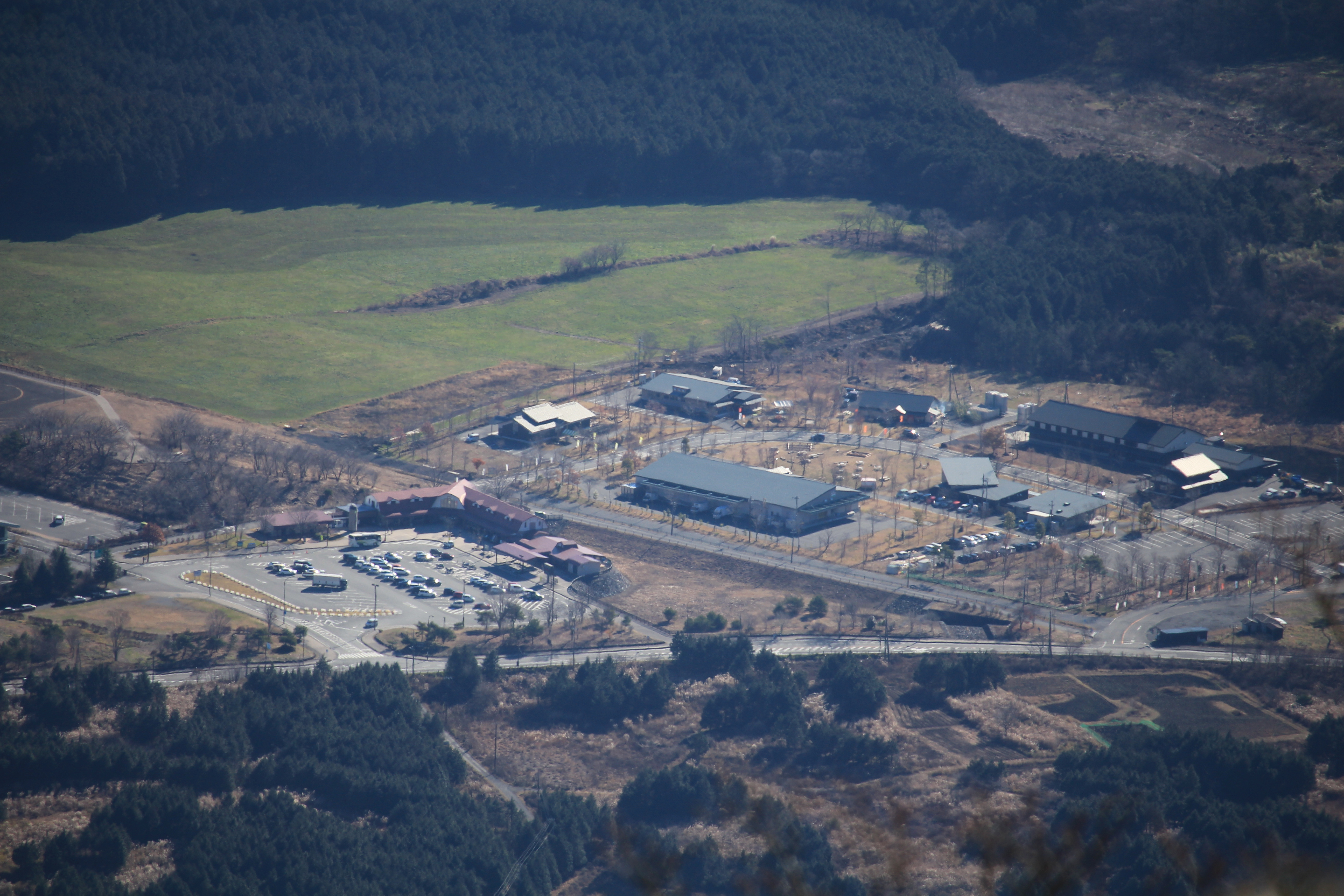 Michinoeki Asagiri Kogen seen from Mount Ama in Tenshi Mountains, Fyujinomiya, Shizuoka Prefecture, Japan.